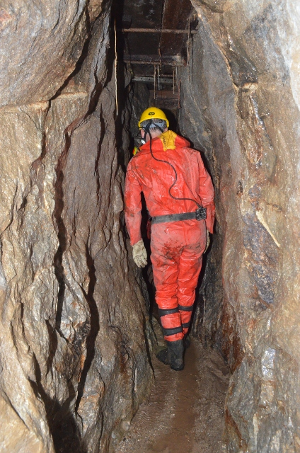 Peakshole Sough. A view of the sough (and vein) which was constructed to drain Wall End mine in the late 1700s. An inscription reads WW 1774. The sough is still in water but then dries out further in before a junction is met; one follows a small vein (Peakshole Vein) and the other passage ceases. Ladders lead up to the mine via tight stopes. The top reveals a small junction and very tight passages revealing the shafts to the surface. Mineralisation is in the form of a ENE-WSW vein and two cavity-filling pipes. This vein runs along a Namurian (mid-Carboniferous) wrench fault caused by rotation of the stress field at the time, the result of uplift of the North Derbyshire shelf. The mine contains F-Ca-Ba-Pb mineralisation.